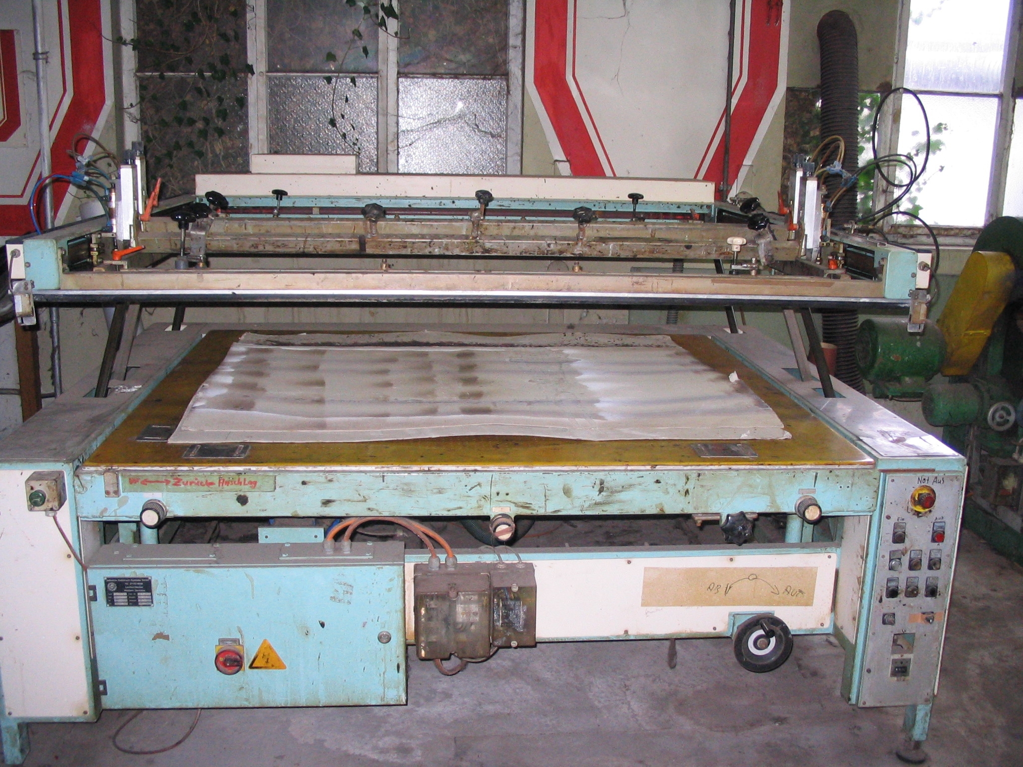 At the fur dressers